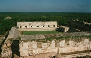 Uxmal nunnery quadrangle. pic taken in summer 1997. I release this picture into the public domain. You may use this image as you wish without asking my permission, but please do not claim you took it yourself. :-) Koyaanis Qatsi 08:11, 12 Aug 2003 (UTC)